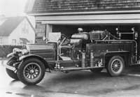 Wyndmoor Hose Company Historical Photo